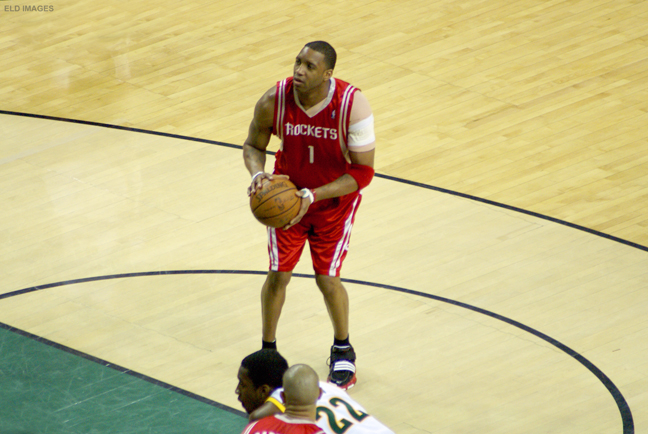 T-Mac's last visit to Seattle. Next stop: Oklahoma City. Yeehah!